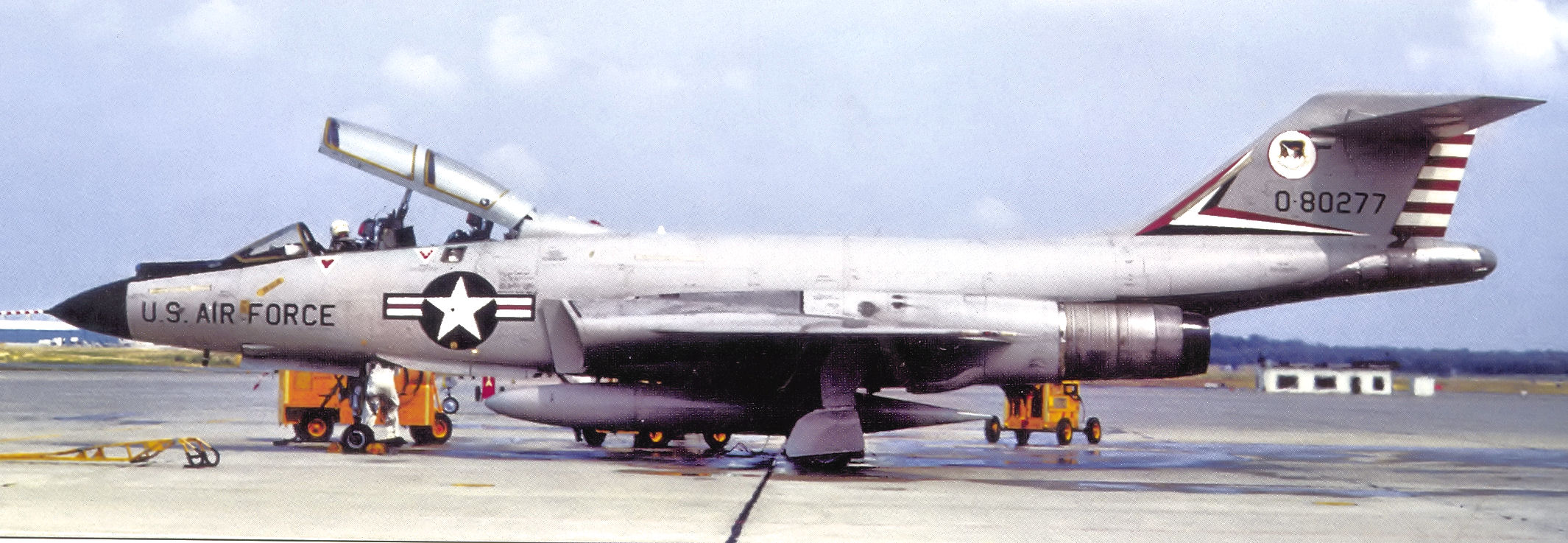 Air Defense Weapons Center McDonnell F-101F-71-MC Voodoo August 1972. SOld to Canadian Armed Forces as 101004